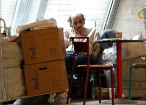 Picture of Merhan Karimi Nasseri taken at the airport in 2005